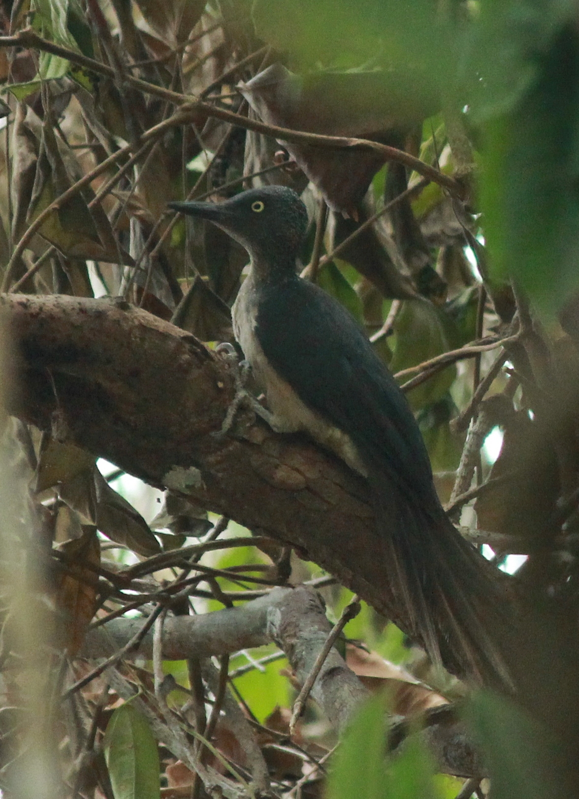 Ashy woodpecker (Mulleripicus fulvus) at Bogani Nani Wartabone National Park, North Sulawesi